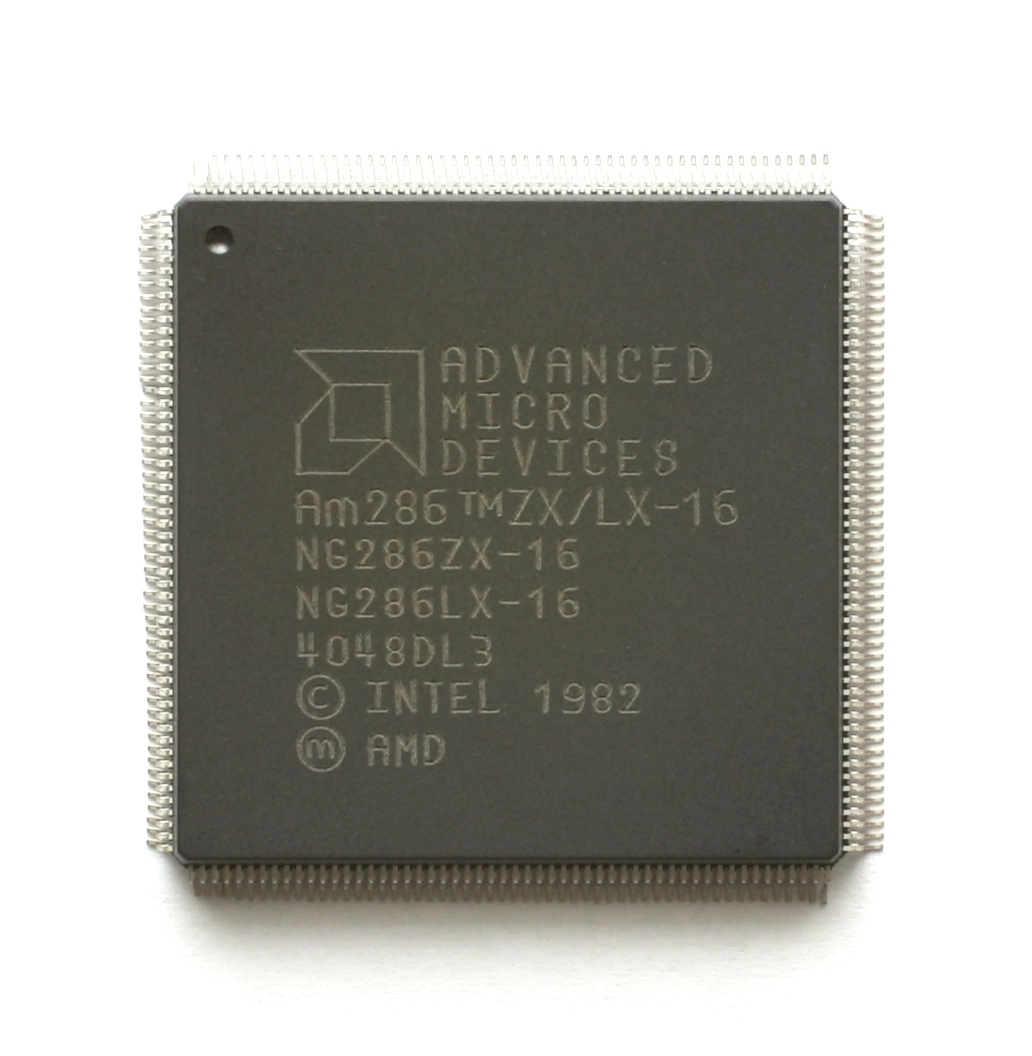 CPU Am286ZX/LX (SoC)